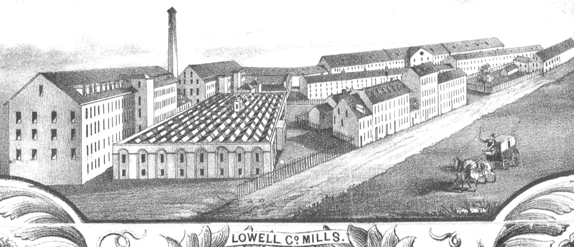 Detail from: Plan of the city of Lowell, Massachusetts Author: Sidney & Neff Publisher: Moody, S. Date: 1850 Location: Lowell (Mass.)